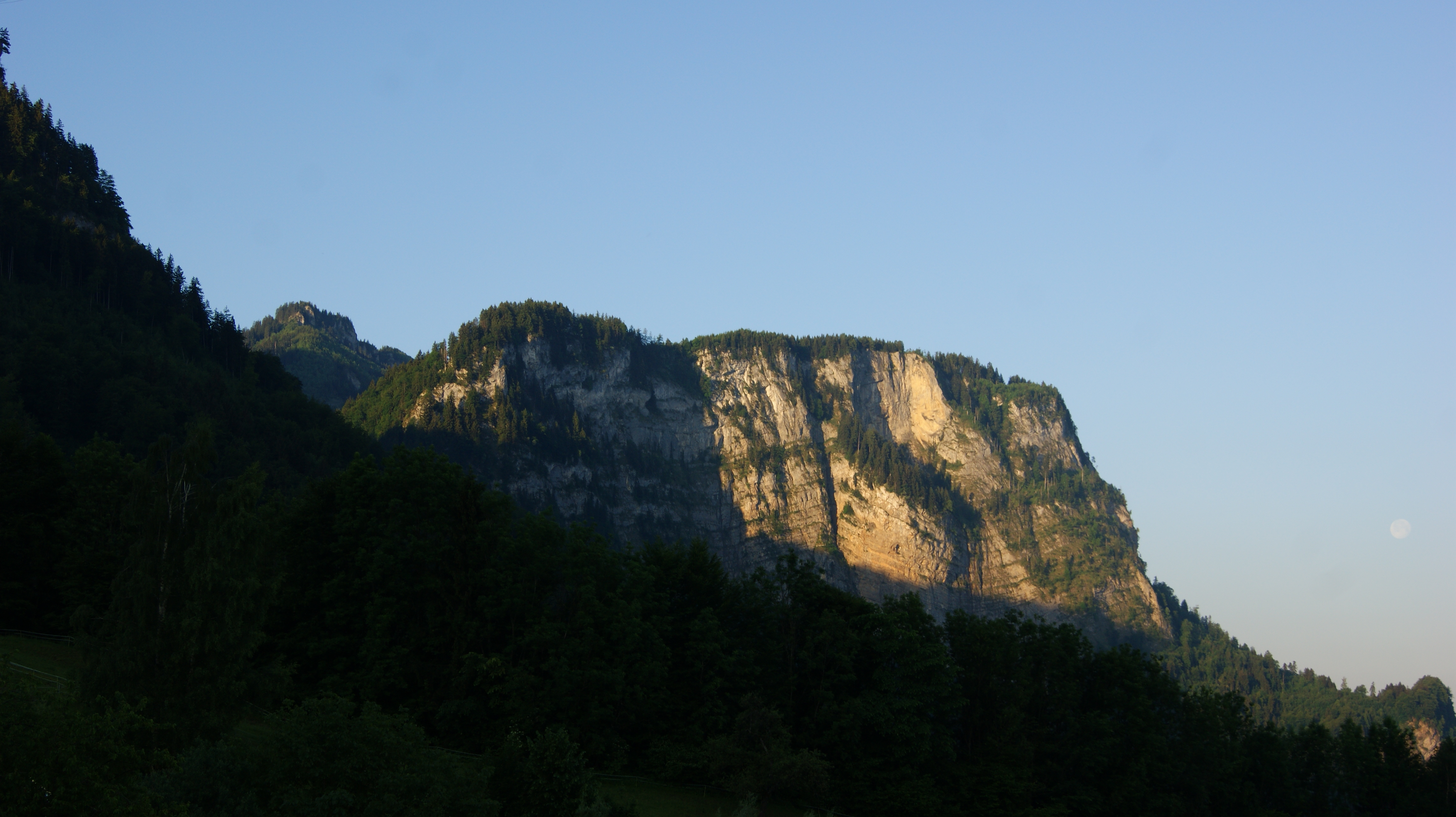 Breitenberg in Hohenems, Vorarlberg, Austria.